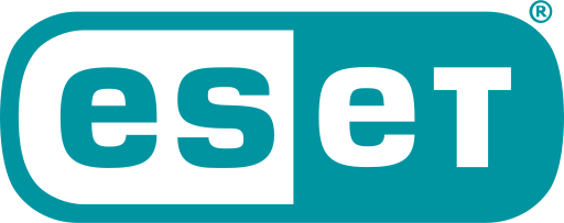 Logo of ESET company.